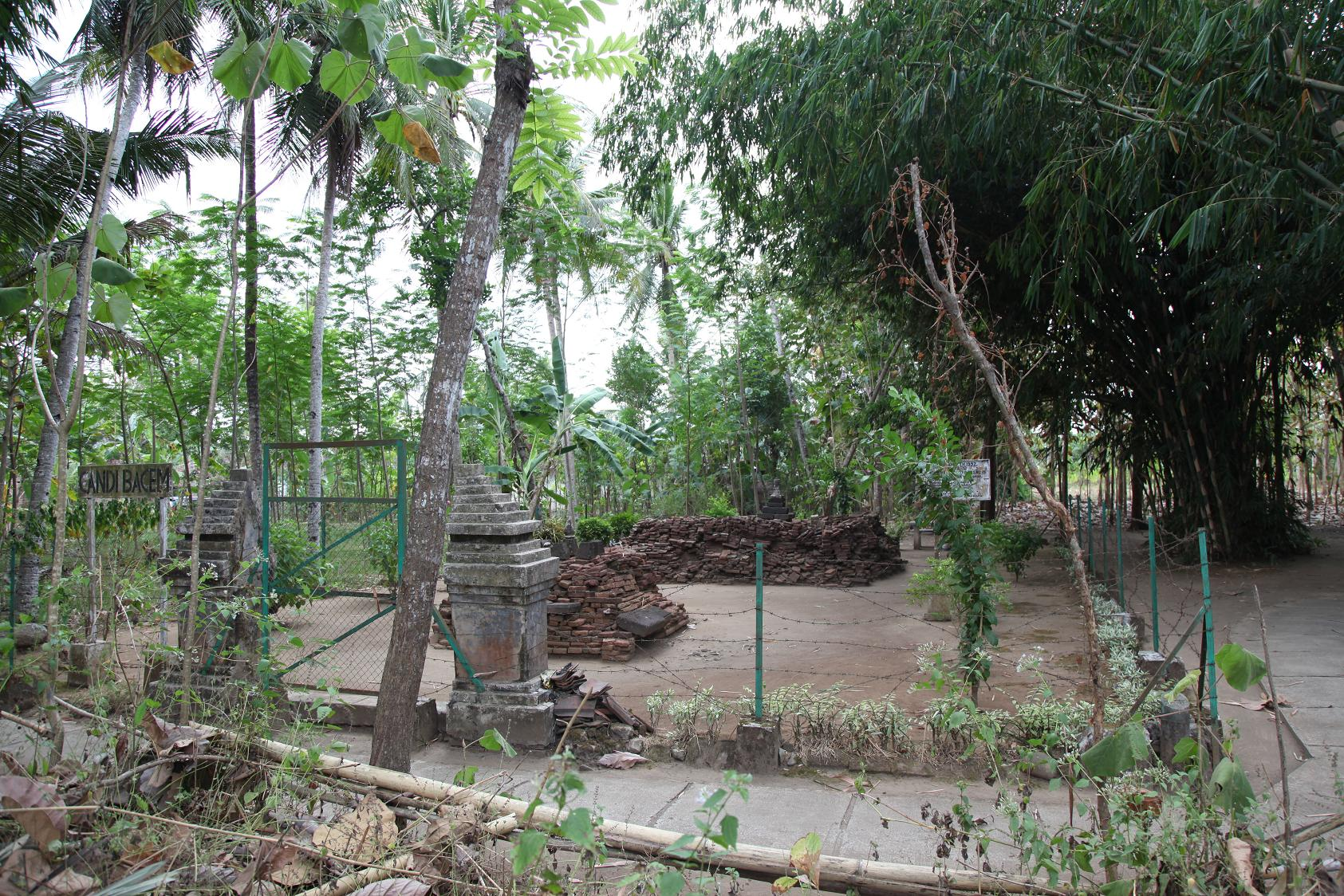 Candi Bacem (Bacem Temple)